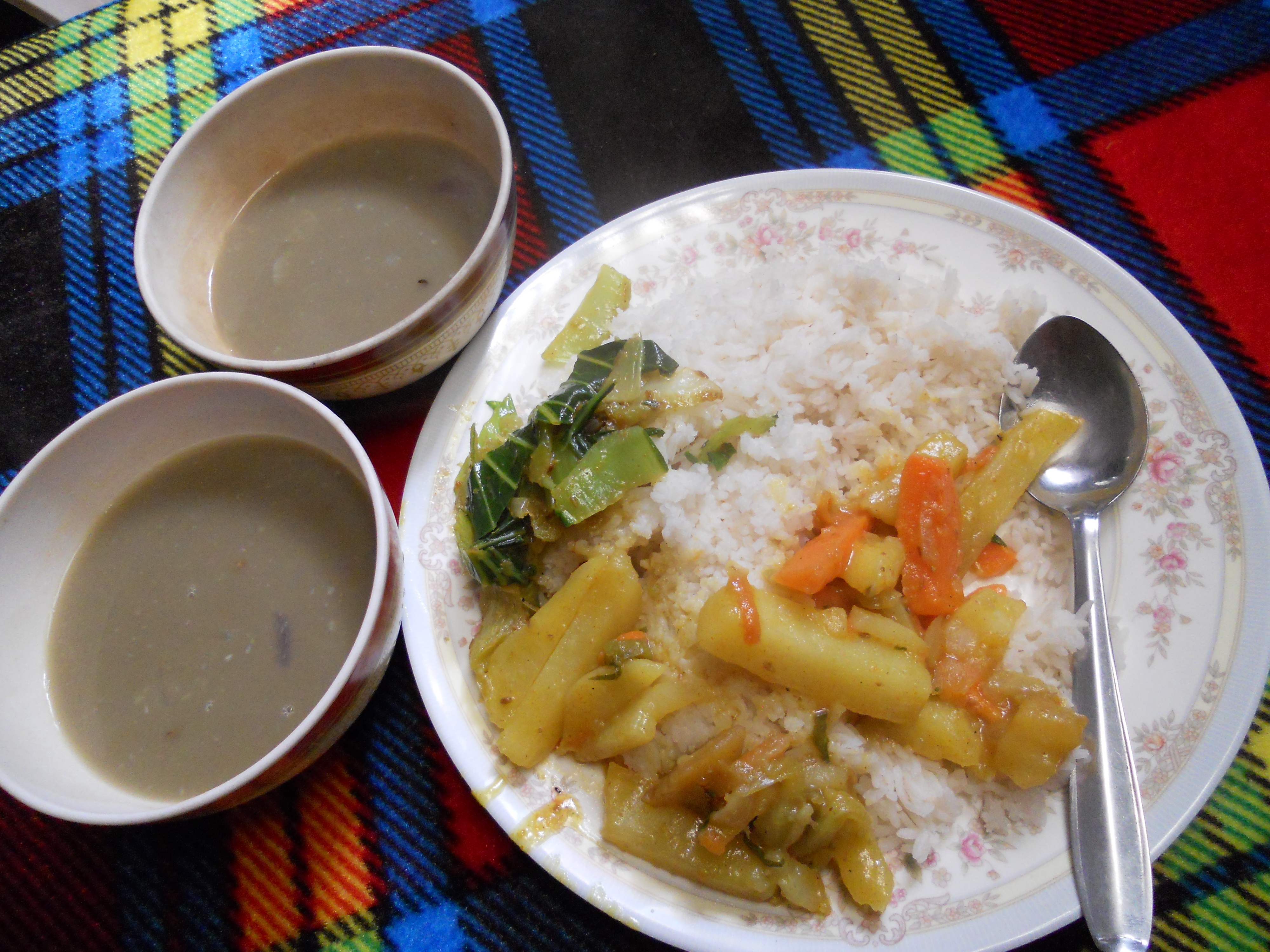 Nepali meal